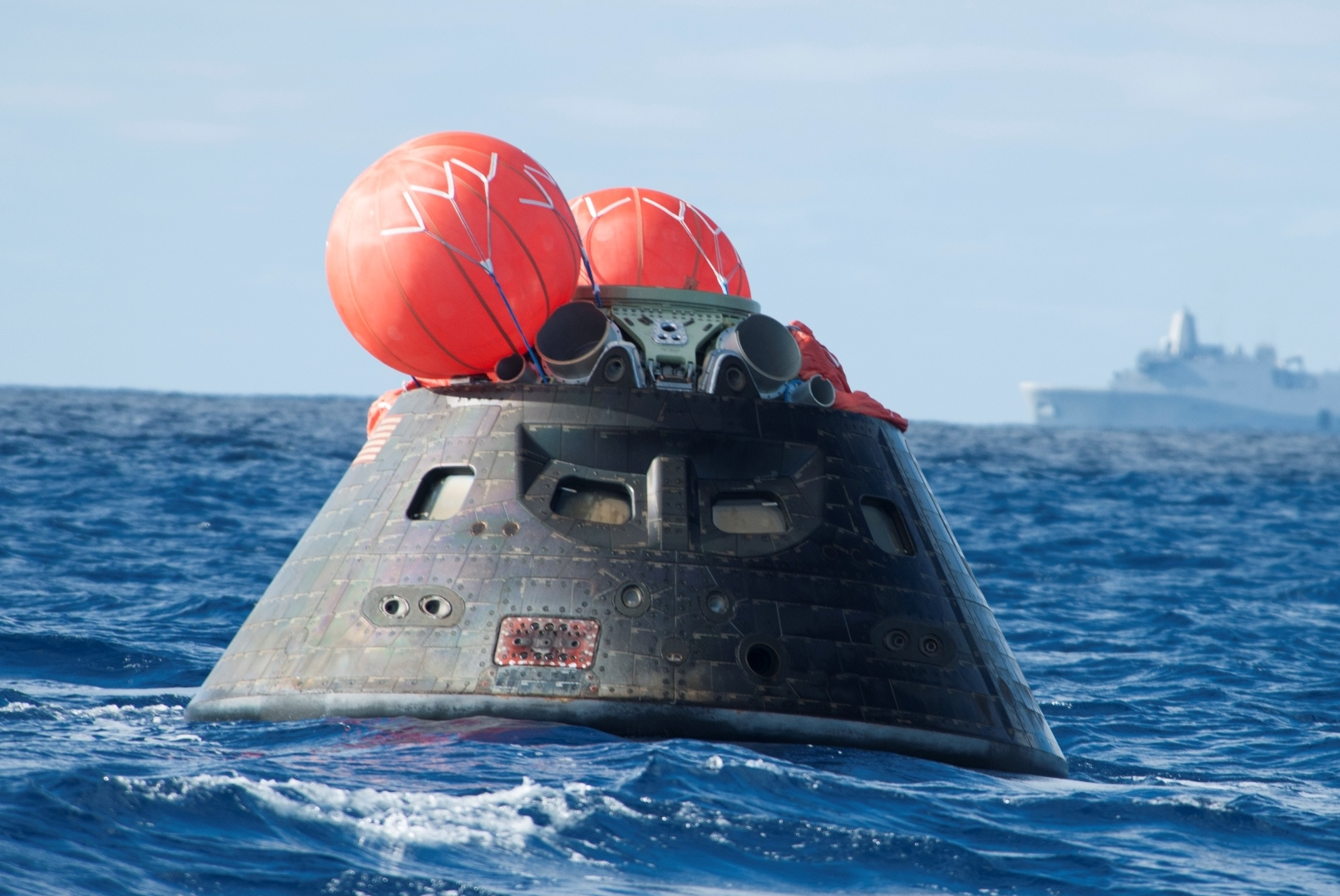 NASA's Orion spacecraft awaits the U.S. Navy's USS Anchorage for a ride home. Orion launched into space on a two-orbit, 4.5-test flight at 7:05 am EST on Dec. 5, and returned safely splashed down in the Pacific Ocean, where a combined team from NASA, the Navy and Orion prime contractor Lockheed Martin retrieved it for return to shore. It's now being transported back to shore on board the Anchorage. It is expected to be off loaded at Naval Base San Diego on Monday.